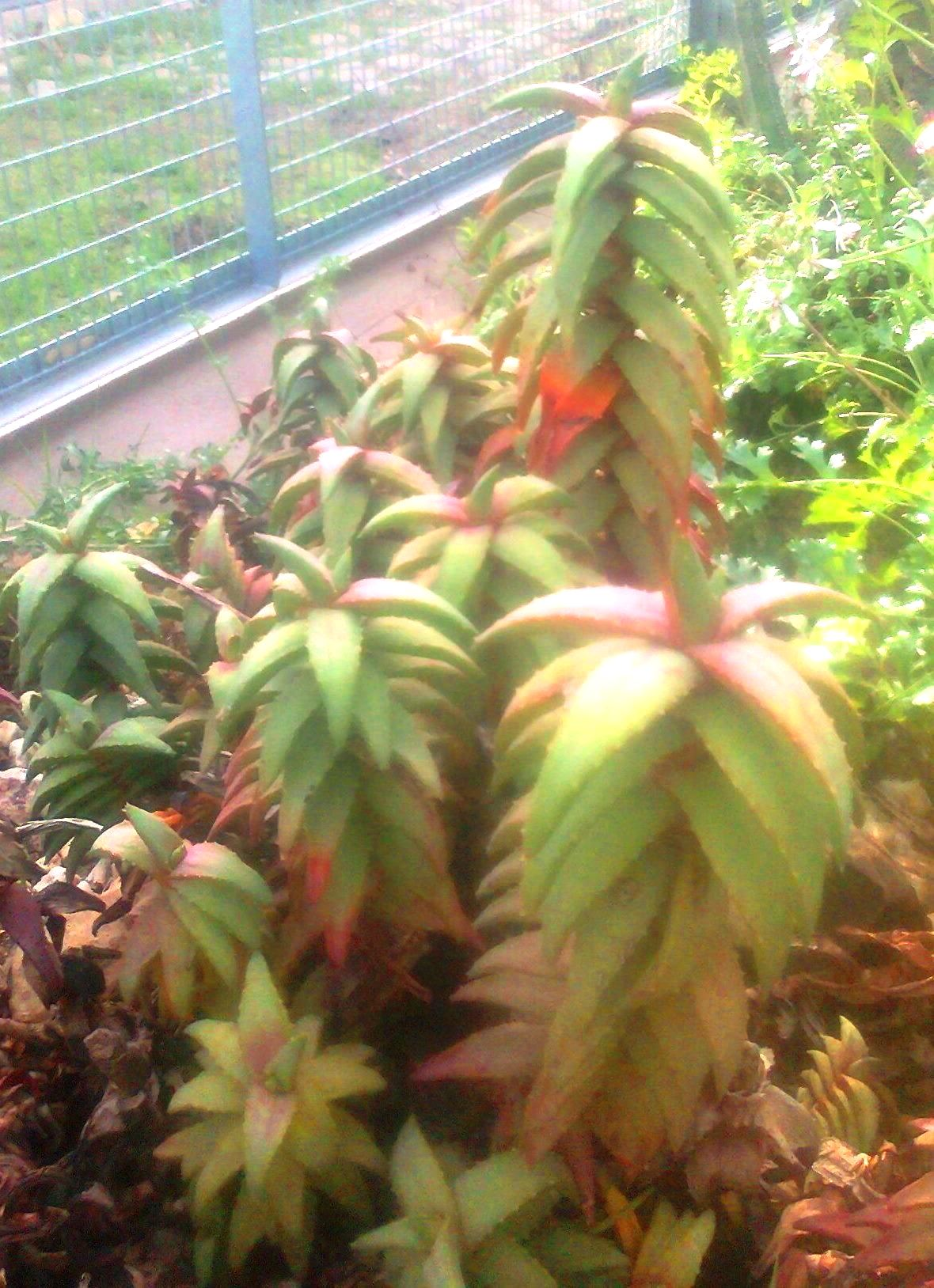 Small Aloe pearsonii - Stellenbosch botanical gardens